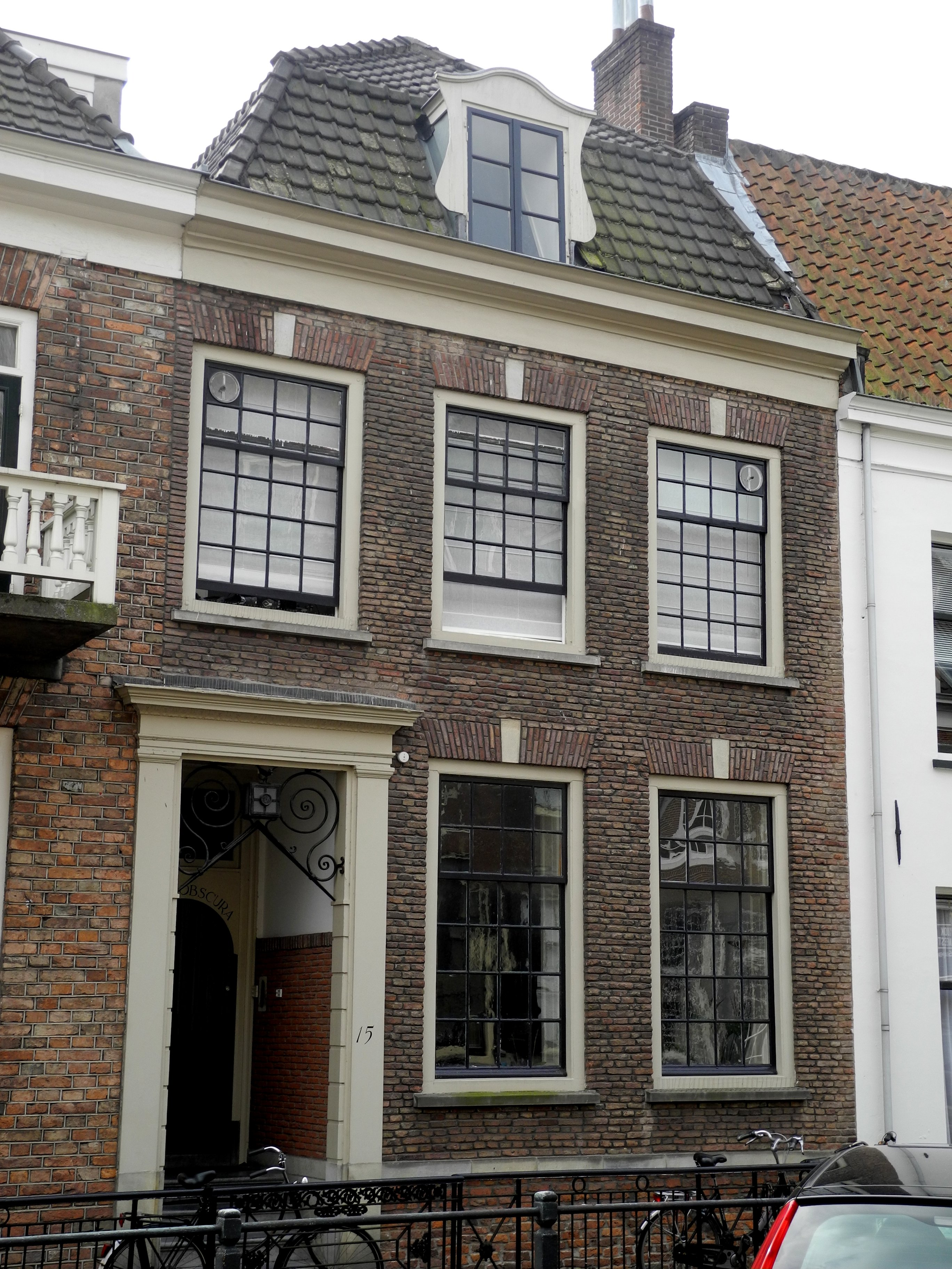 A house at Kromme Nieuwegracht 15, Utrecht.